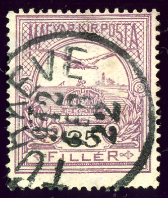 Kingdom of Hungary 35 fillér stamp (purple SG165), issue 1908, cancelled at TÚRKEVE (Northern Great Plain of Hungary, in 1912.